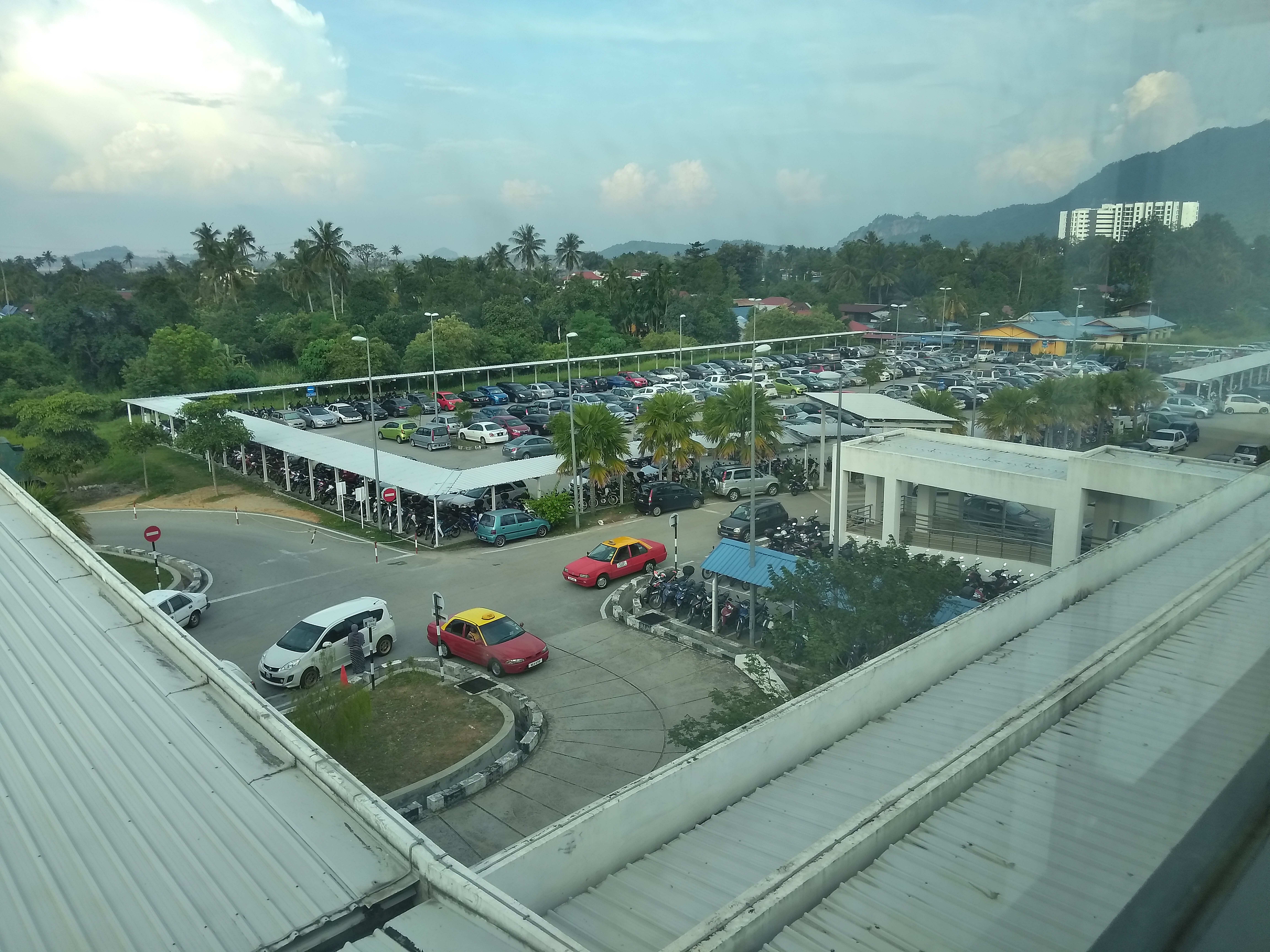 Bukit Mertajam Railway Station carpark